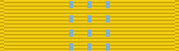 I made this image with Photoshop. DOD Meritorious Civilian Service Award Ribbon